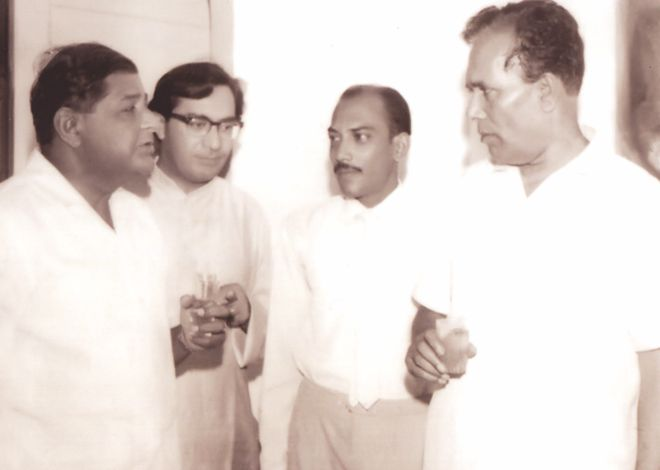 (From left): Justice Feroze Nana, commentator Aslam Azhar, Mubinul Azim and Shilpacharya Zainul Abedin at the opening ceremony of Mubinul Azim's exhibition in Karachi in 1968.